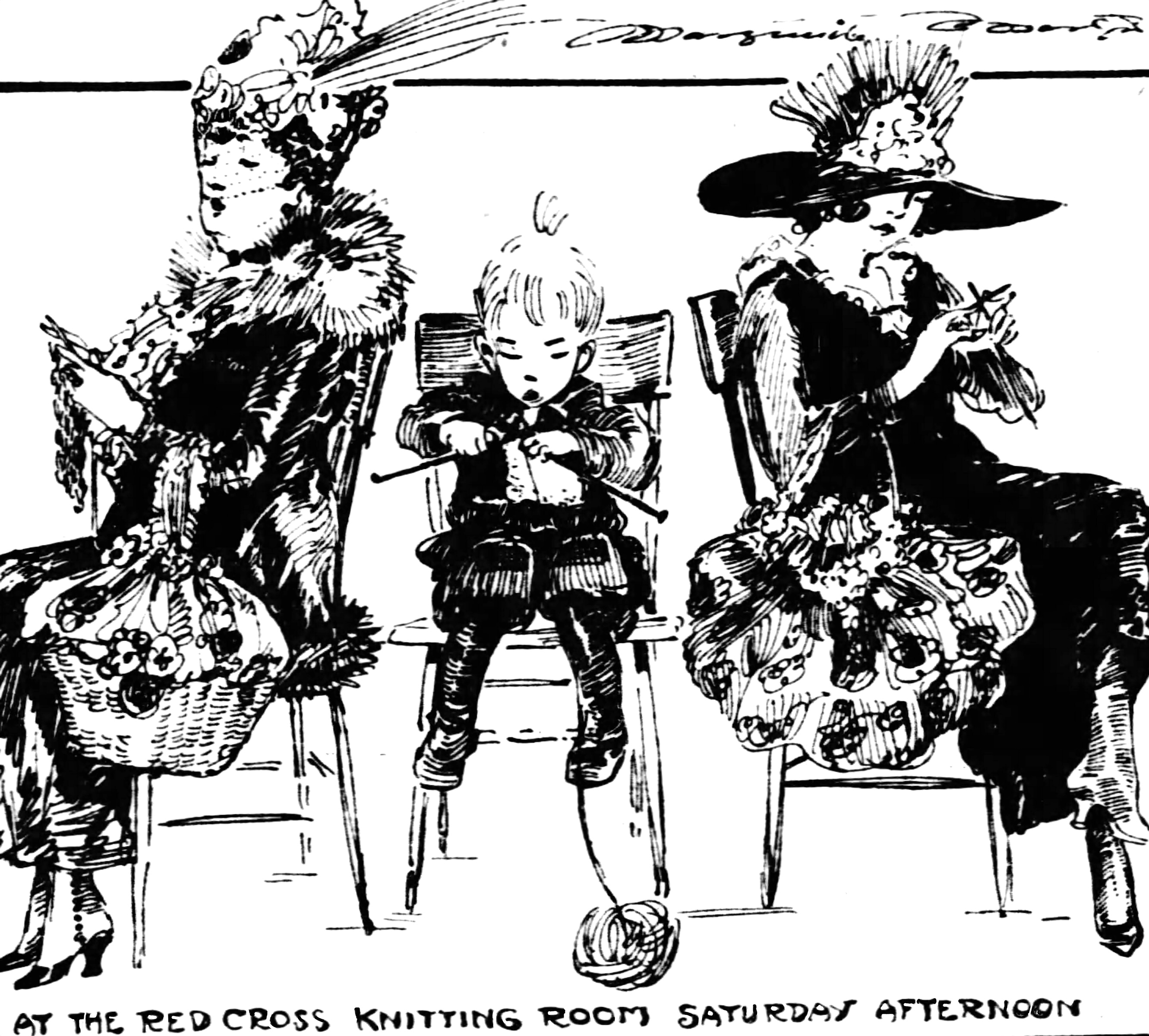 Drawing by Marguerite Martyn of two women and a child, all knitting for the :en:History_of_knitting#1914-1918:_Knitting_for_the_War_Effort| in St. Louis, Missouri, December 1917